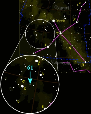 This illustration shows the location of the star 61 Cygni within the constellation of Cygnus. The source for the background map is the illustration Image:Cygnus constellation map.png by Torsten Bronger. The later is licensed under GNU Free Documentation License, Version 1.2.